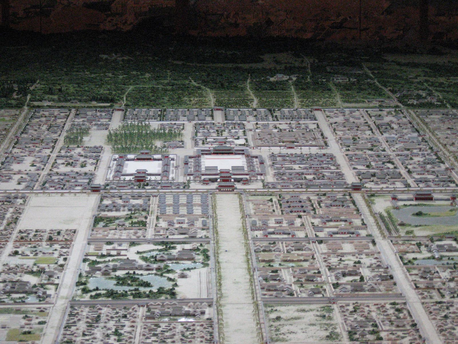 Daidairi of Heiankyo, Ancient Japanese Capital. 平安京大内裏復元模型（平安京創生館）